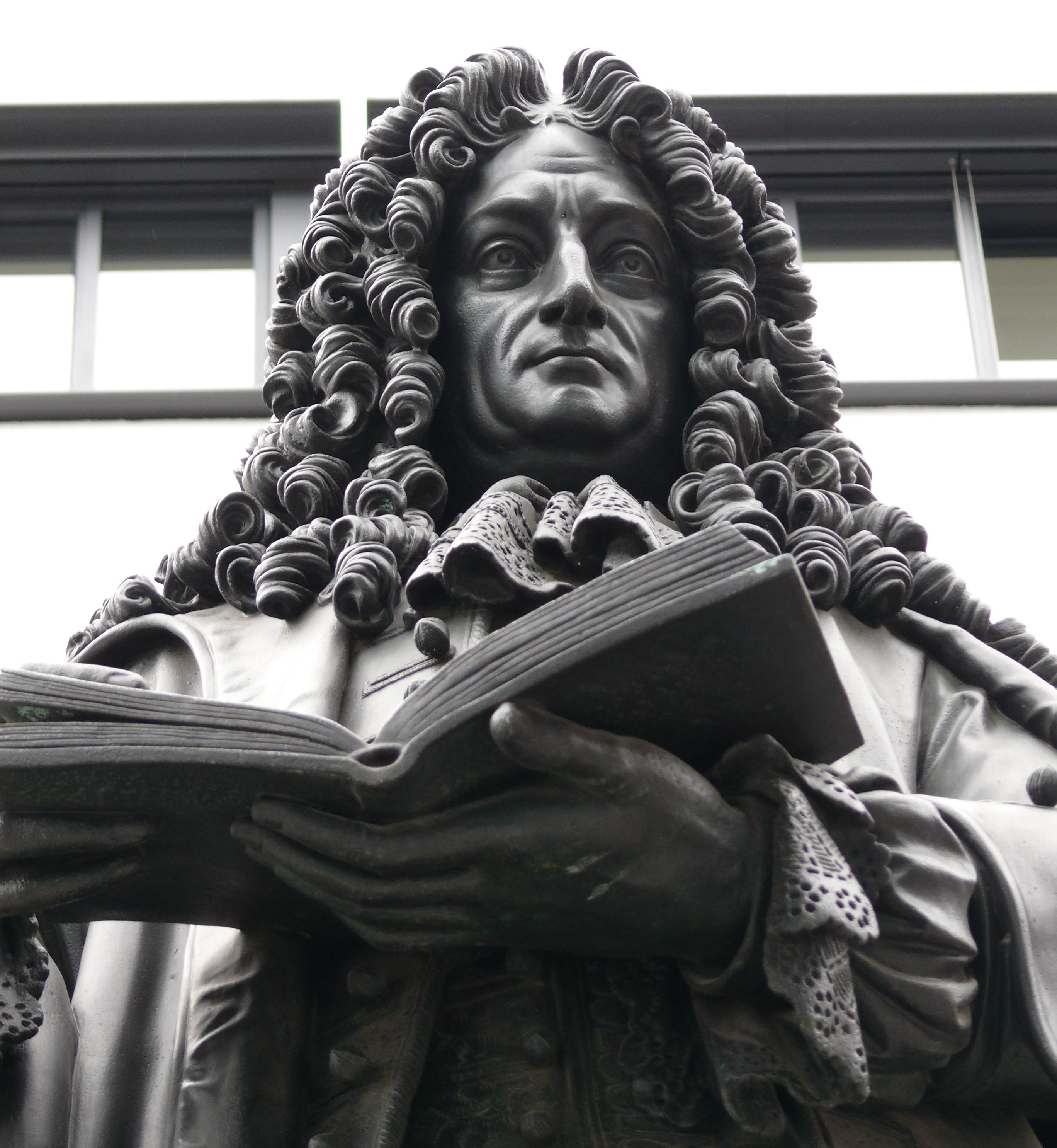 The statue of Gottfried Wilhelm Leibniz by Ernst Hähnel (1883) in Leipzig, Germany.